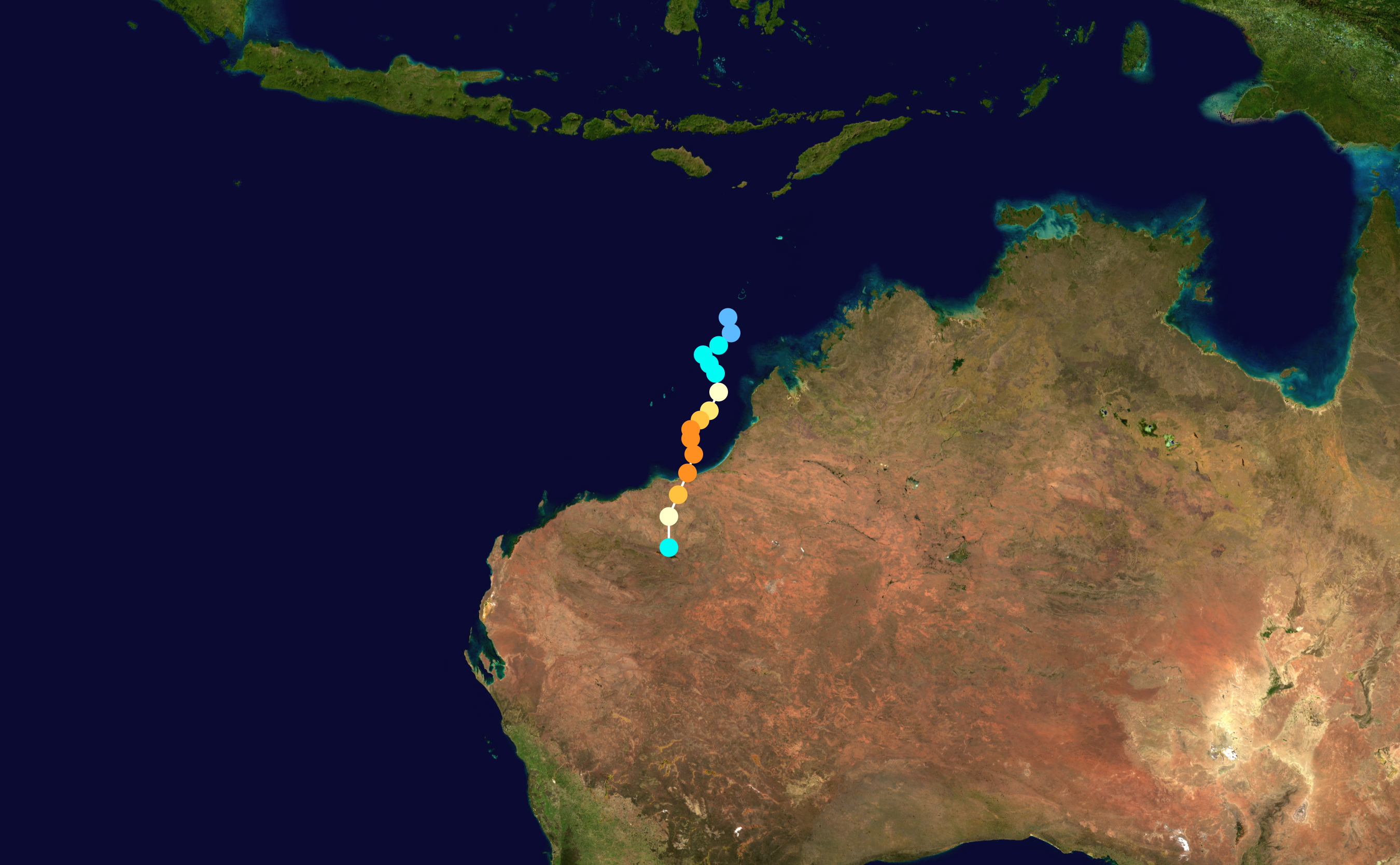 Cyclone Chris (2002) track. Uses the color scheme from the Saffir-Simpson Hurricane Scale.